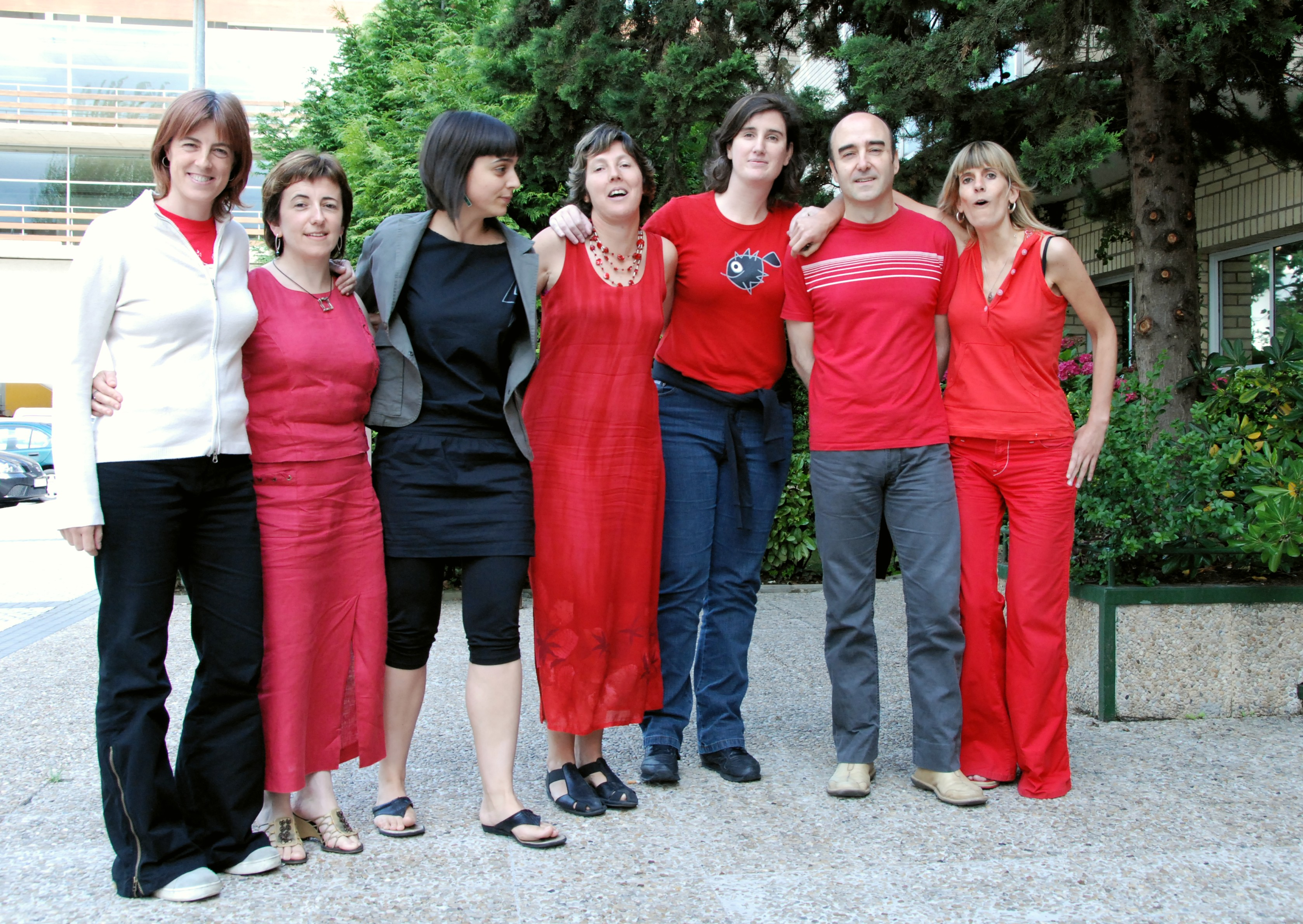 language tTeaching subgoup. Ixa Group (2008)